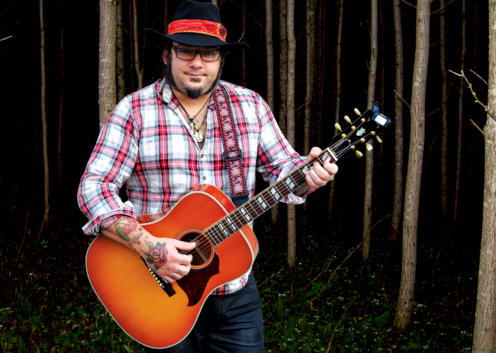 Swedish ex sportsman, now musician, Jimmy Nordin.